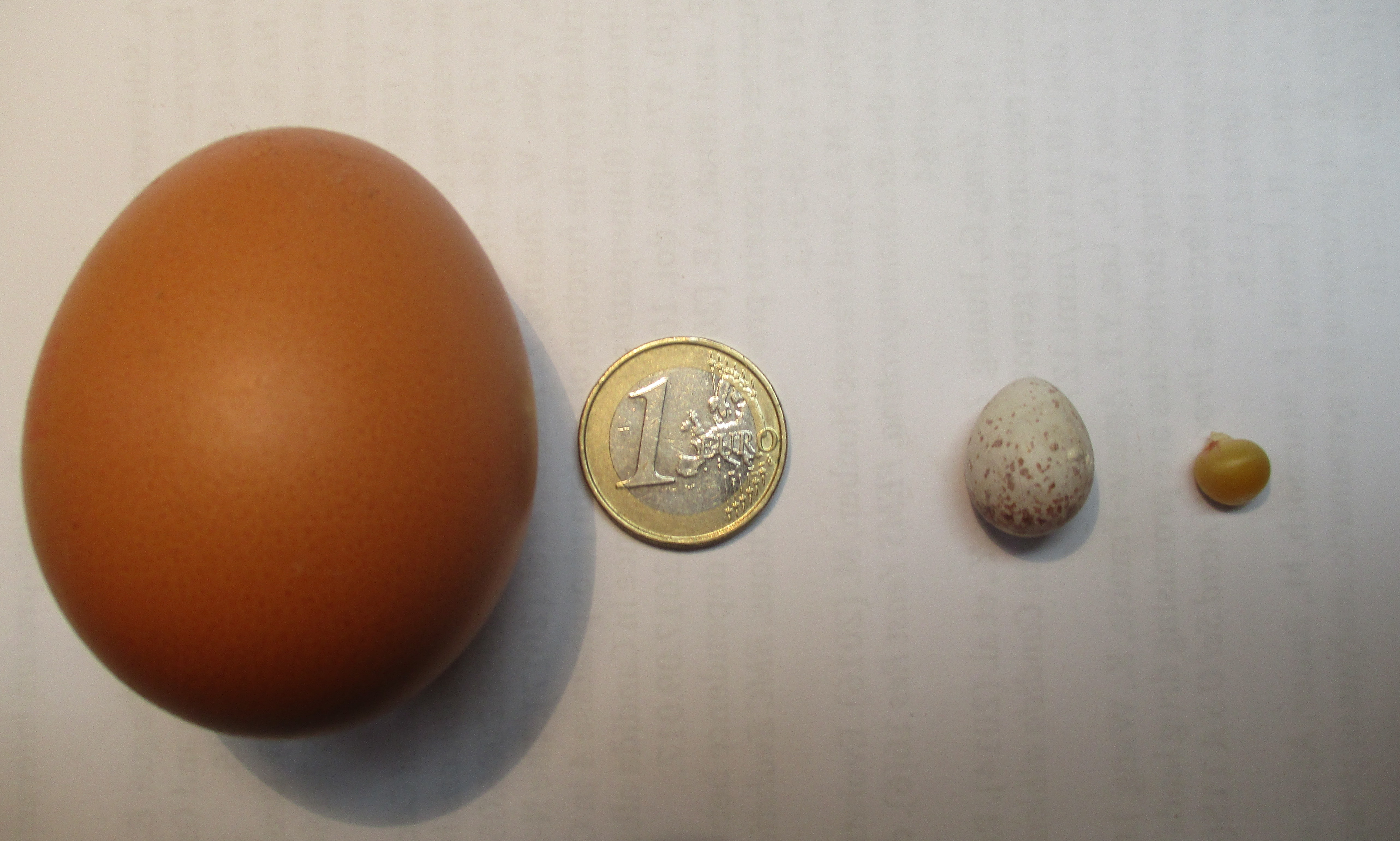 Eggs from a chicken and great tit compared to a 1 euro coin and a corn grain